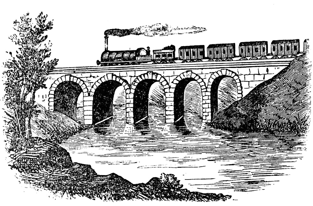 Stonebridge over Säveån at Lerum.